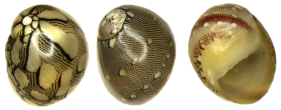 Family: Neritidae Size: 10 mm Origin: Florida to Brazil Location: Dominican Republic, Luperon leg.det. U.Schmidt, 1989 Photo: U.Schmidt, 2008